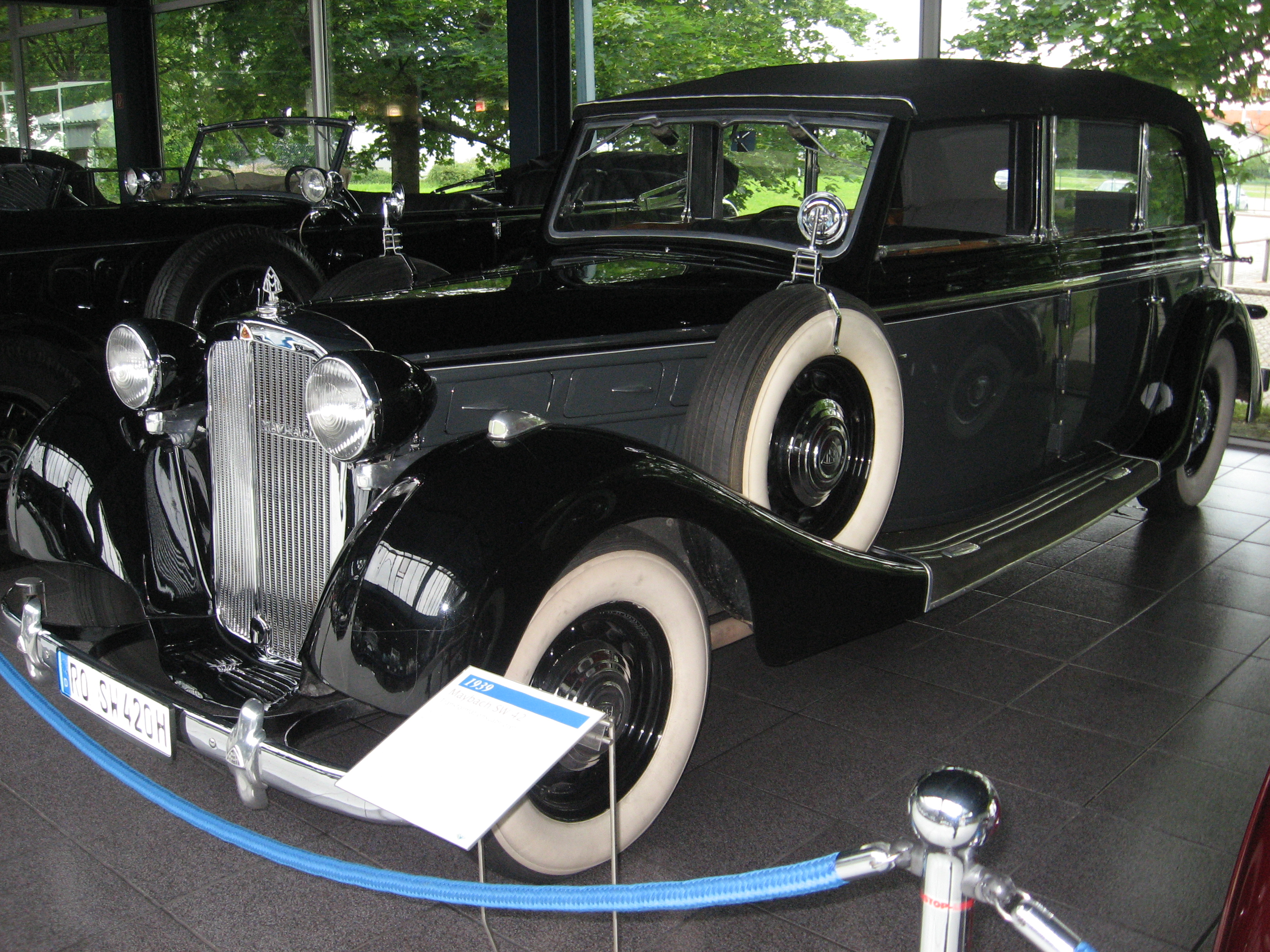 Subject: Maybach SW42 Cabriolet Date:: June 10th, 2011 Place/Country: EFA-Museum für Deutsche Automobilgeschichte, Amerang, Germany I release all rights in the public domain.